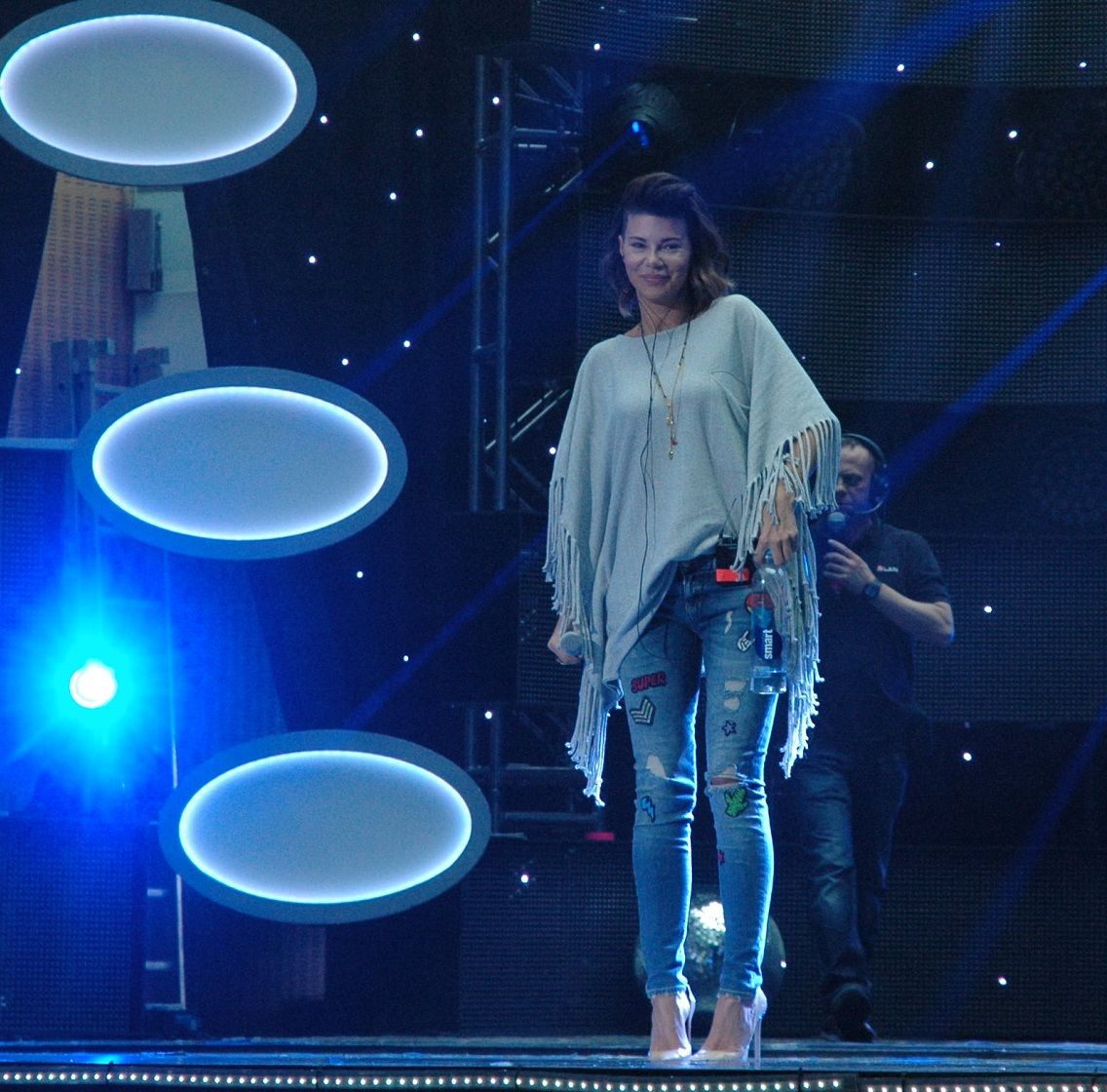 Polish singer Edyta Górniak during rehearsals for performance in Polish National Final of ESC 2016